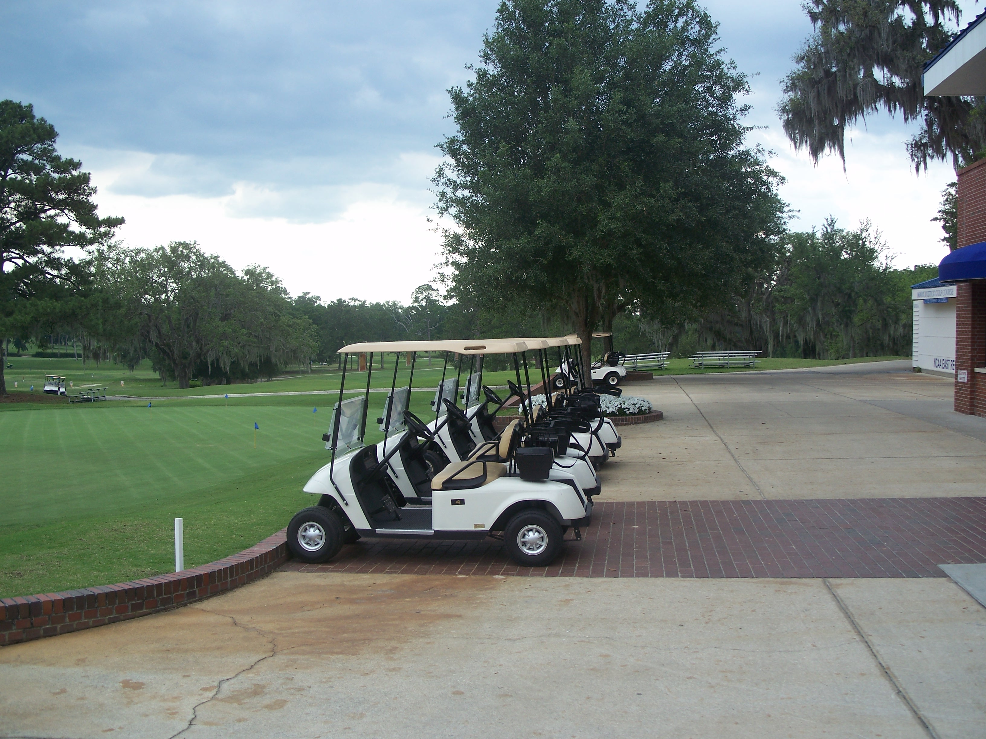 Gainesville, Florida: University of Florida: Golf carts at the campus golf course